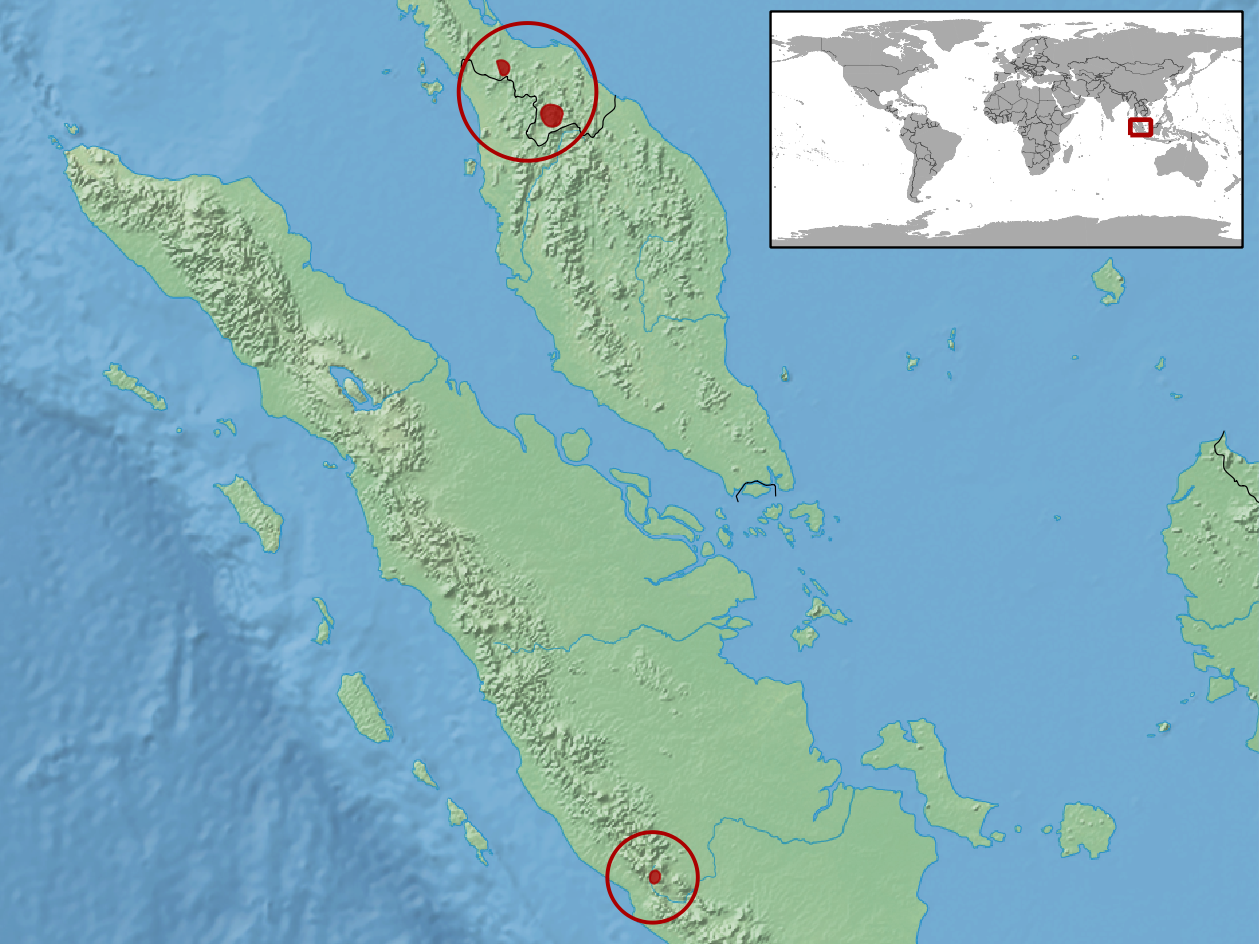 geographic distribution of Boiga bengkuluensis (Native: Indonesia (Sumatera); Thailand)